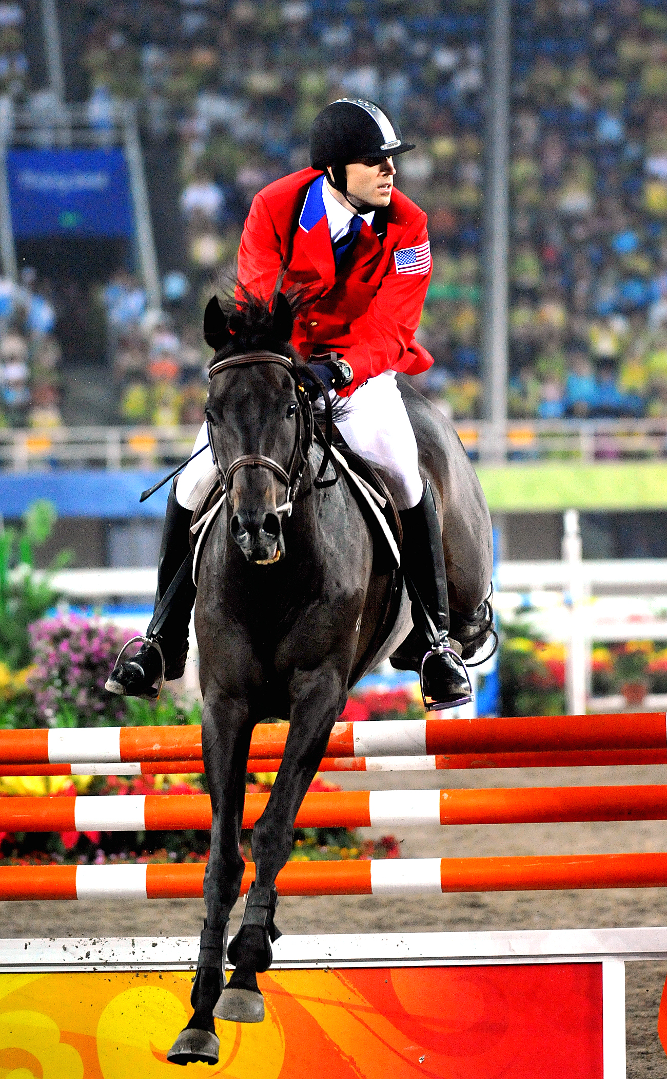 U.S. Air Force World Class Athlete Program Capt. Eli Bremer rides Dangdang to a 14th-place finish worth 1,060 points in the equestrian show jumping portion of the modern pentathlon at the Olympic Sports Center Stadium in Beijing.